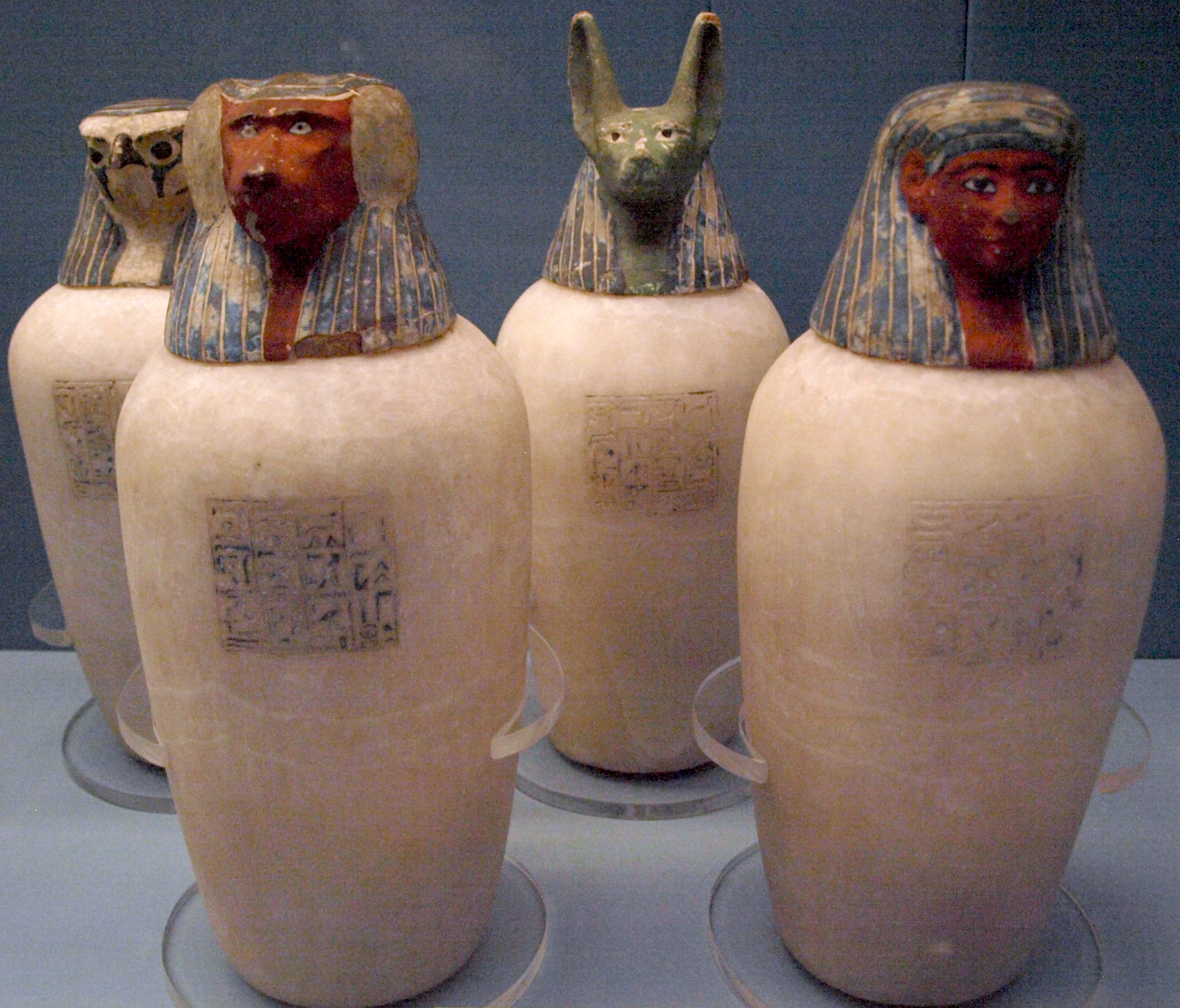 Canopic jars of Neskhons, wife of Pinedjem II. Made of calcite, with painted wooden heads. Originally from the Deir el-Bahri royal cache, circa 990-969 BC.